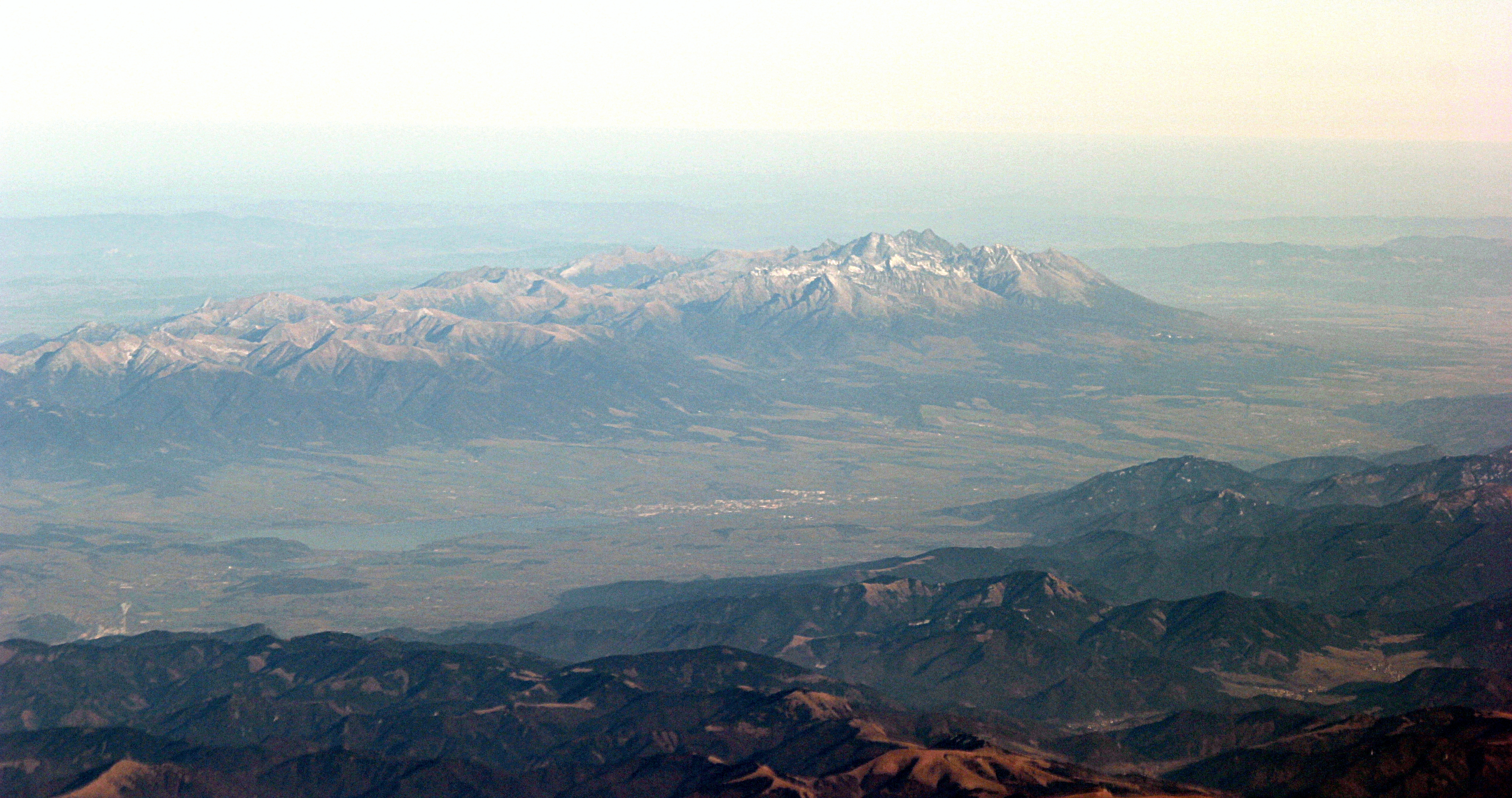 Aerial image of the Tatra mountains.